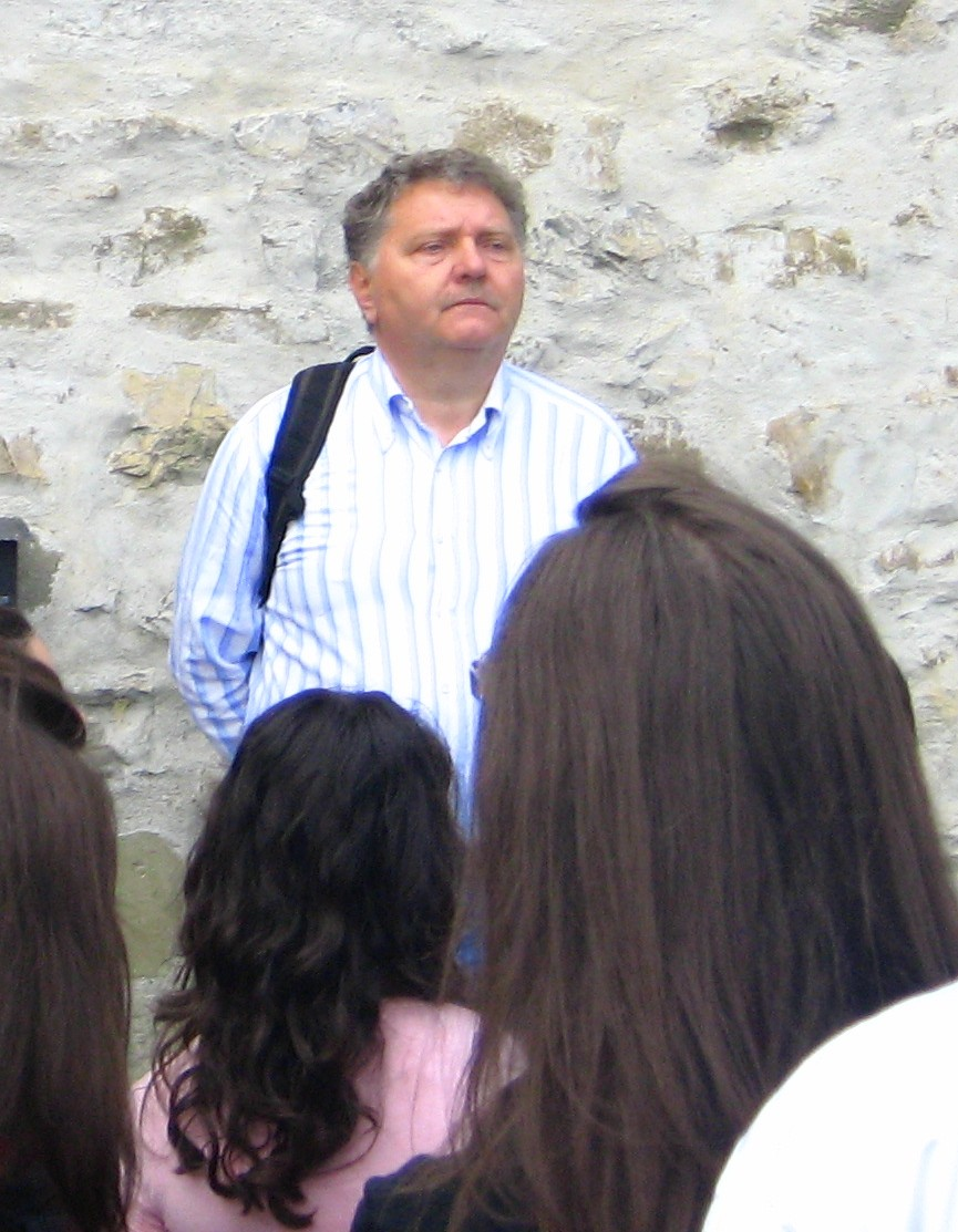 Renzo Zagnoni, professor and historian, during a lesson outdoors.